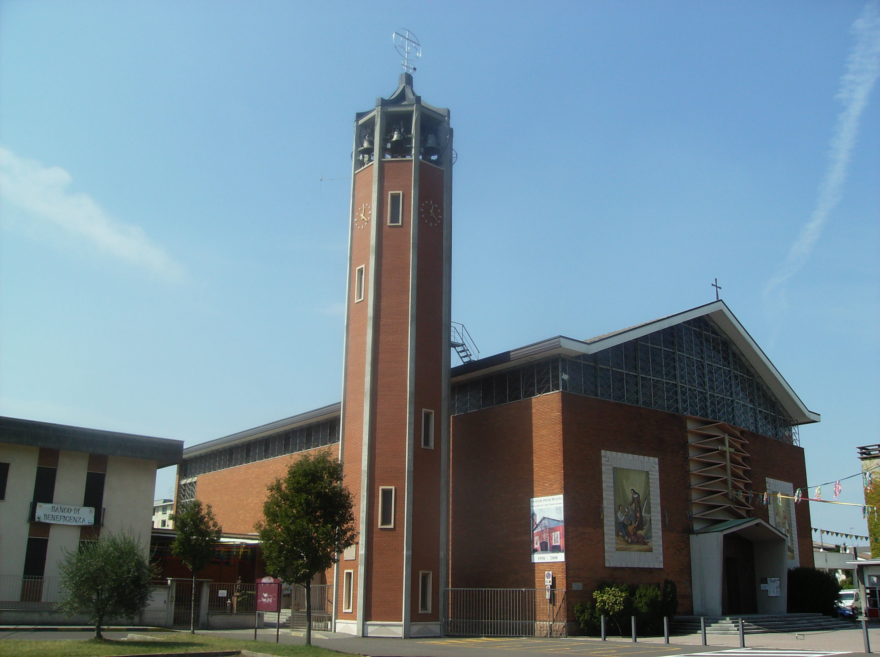 S. Luigi e Beata Giuliana - Busto Arsizio